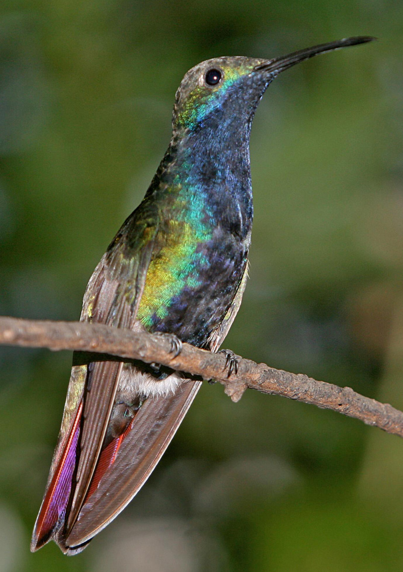 Male Black-throated Mango, Puerto Iguazu, Argentina.